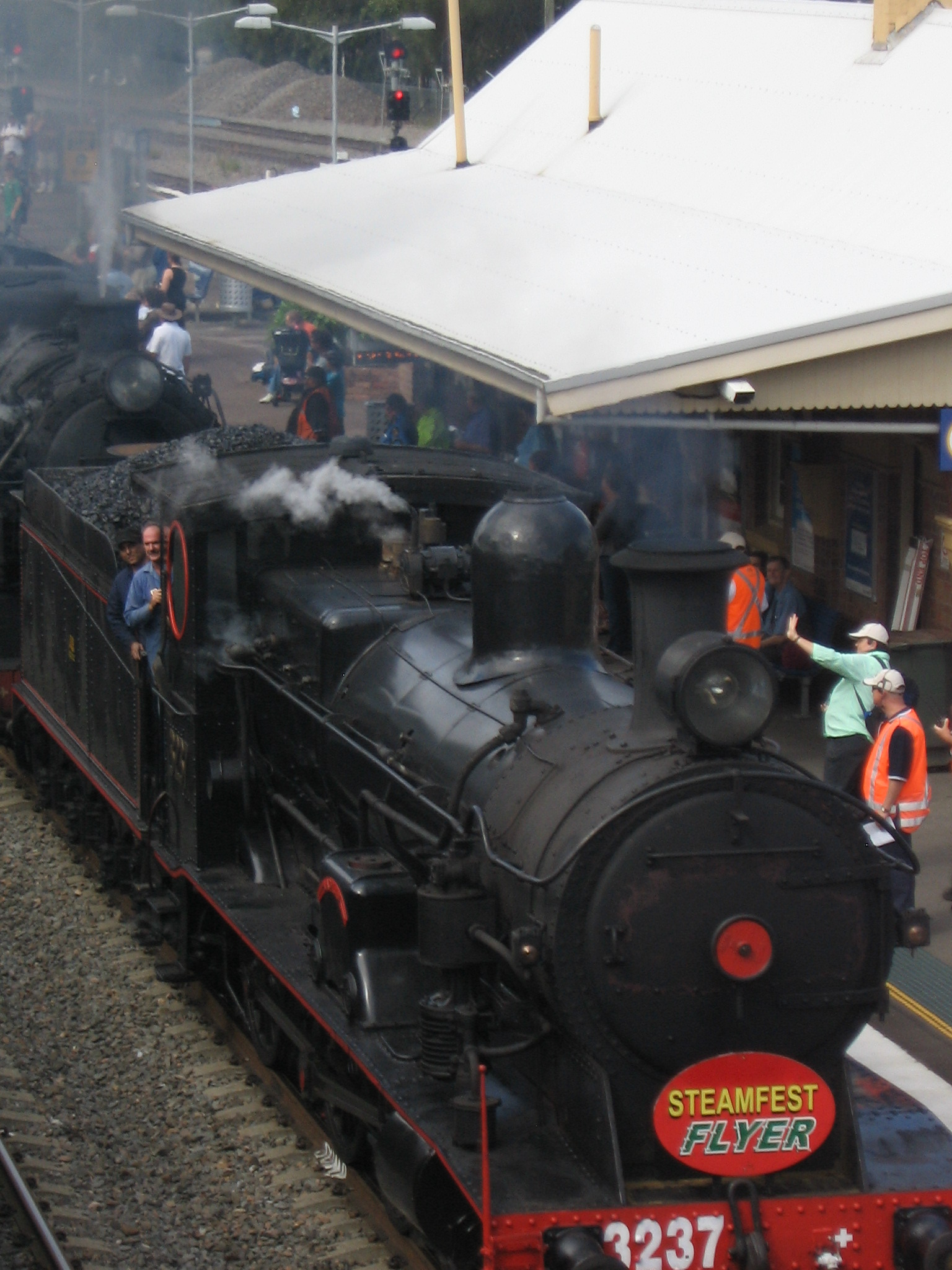 3237 arriving with the triple Header at the Hunter Valley Steamfest 2009